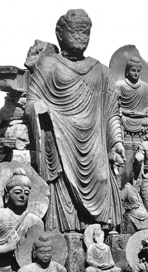 Loriya Tangai standing Buddha